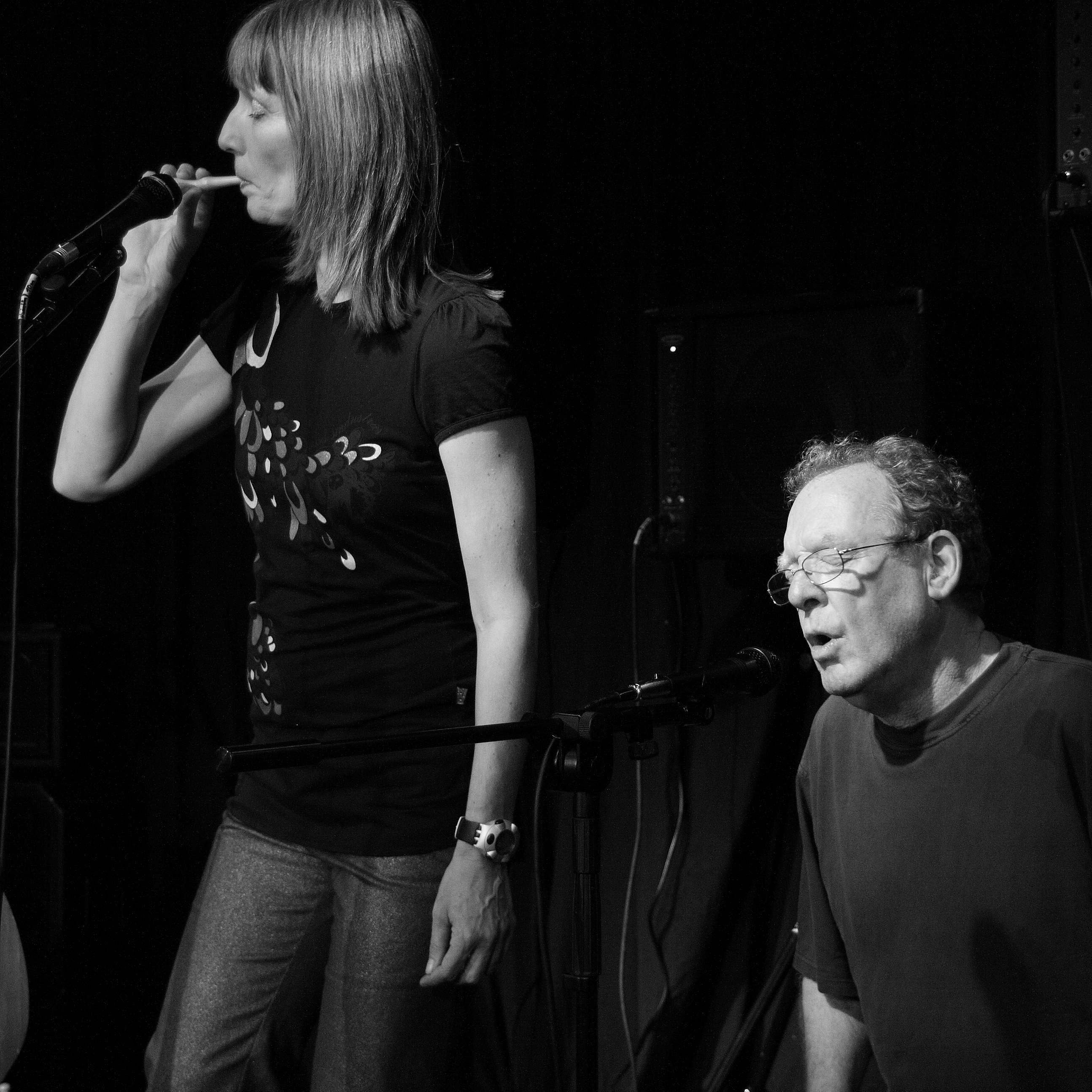 Ute Wassermann & Phil Minton in concert with Speakeasy (Martin Blume, Thomas Lehn, Phil Minton & Ute Wassermann) at Club W71, Weikersheim.